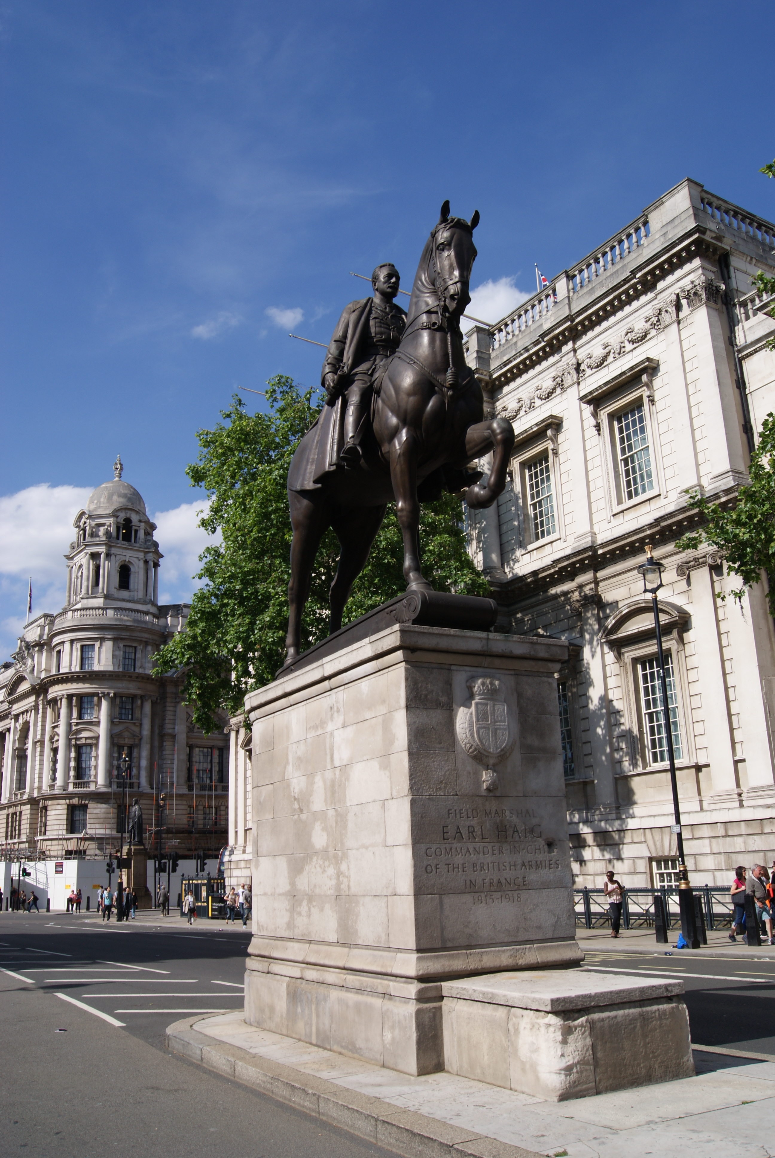 The Earl Haig Memorial, a memorial to Douglas Haig, 1st Earl Haig, along Whitehall, London, UK.